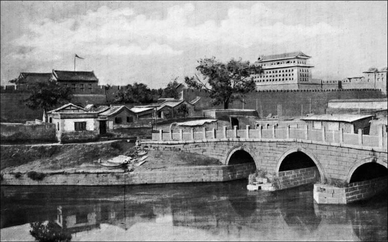 Beijing Eastern wall, captured by russian troops. Guards of the bridge were killed by russian infantry during the night attack. On the tower above the gates it is possible to see the russian flag.